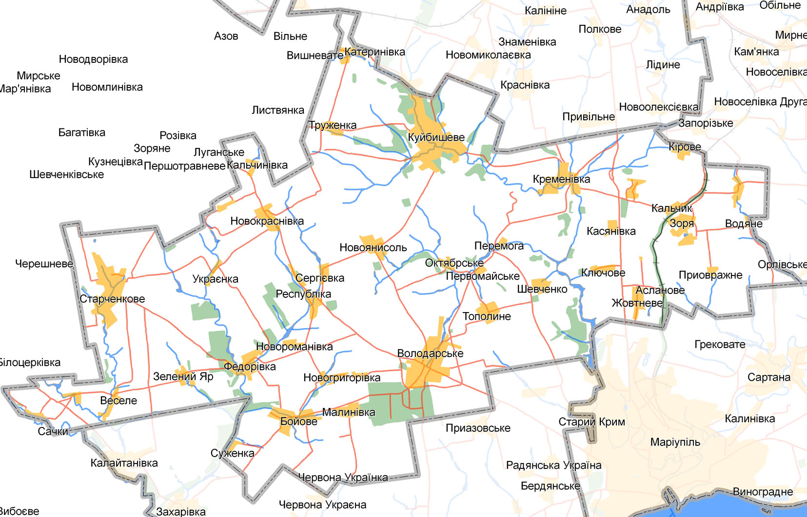 Map of Volodarske Raion, Donetsk Oblast, Ukraine